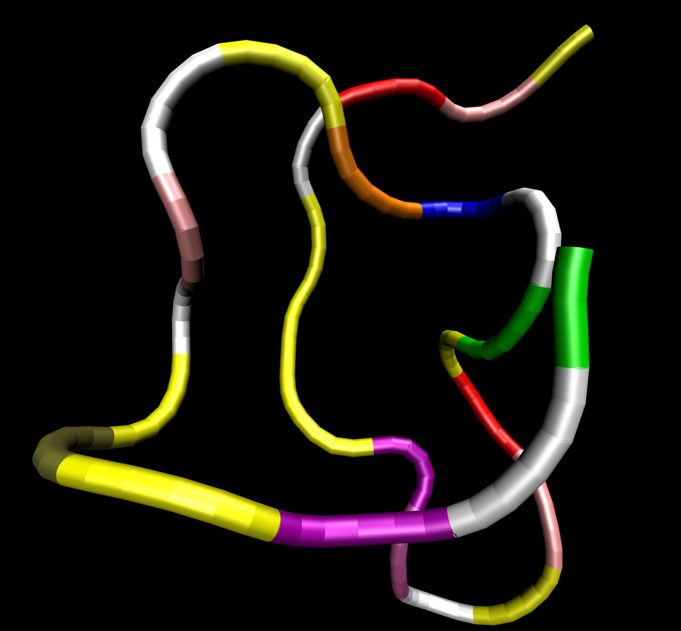 Self-made from PDB entry 1ANP